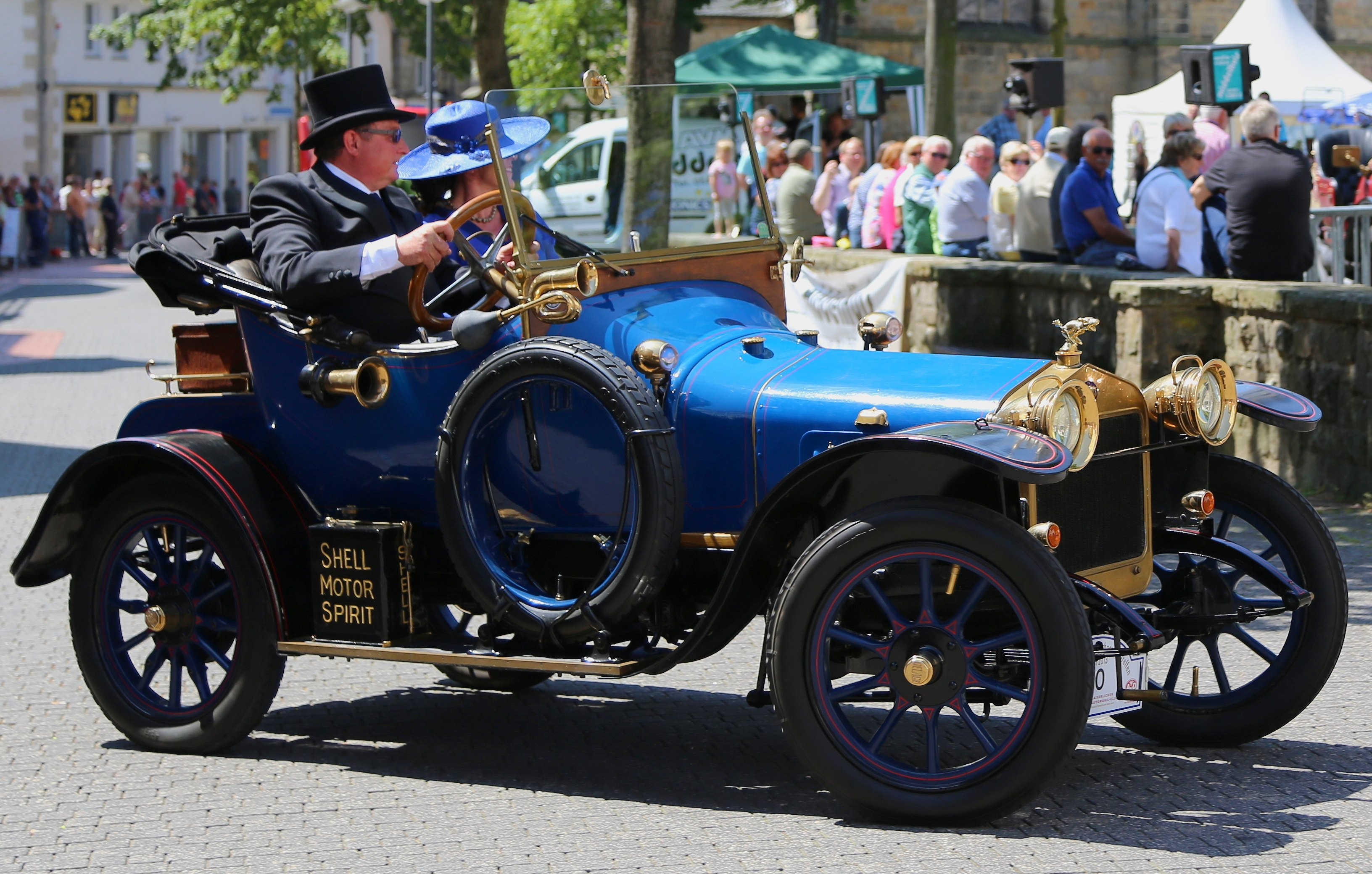 A 1912 Delage type TR at the 23rd International Ibbenbüren Vintage Automobiles Meeting (23. Internationales Ibbenbürener Schnauferl-Treffen) in Ibbenbüren, Kreis Steinfurt, North Rhine-Westphalia, Germany. Picture shows the traditional Schnauferl Parade through the city centre – here on Market Street (Marktstraße).